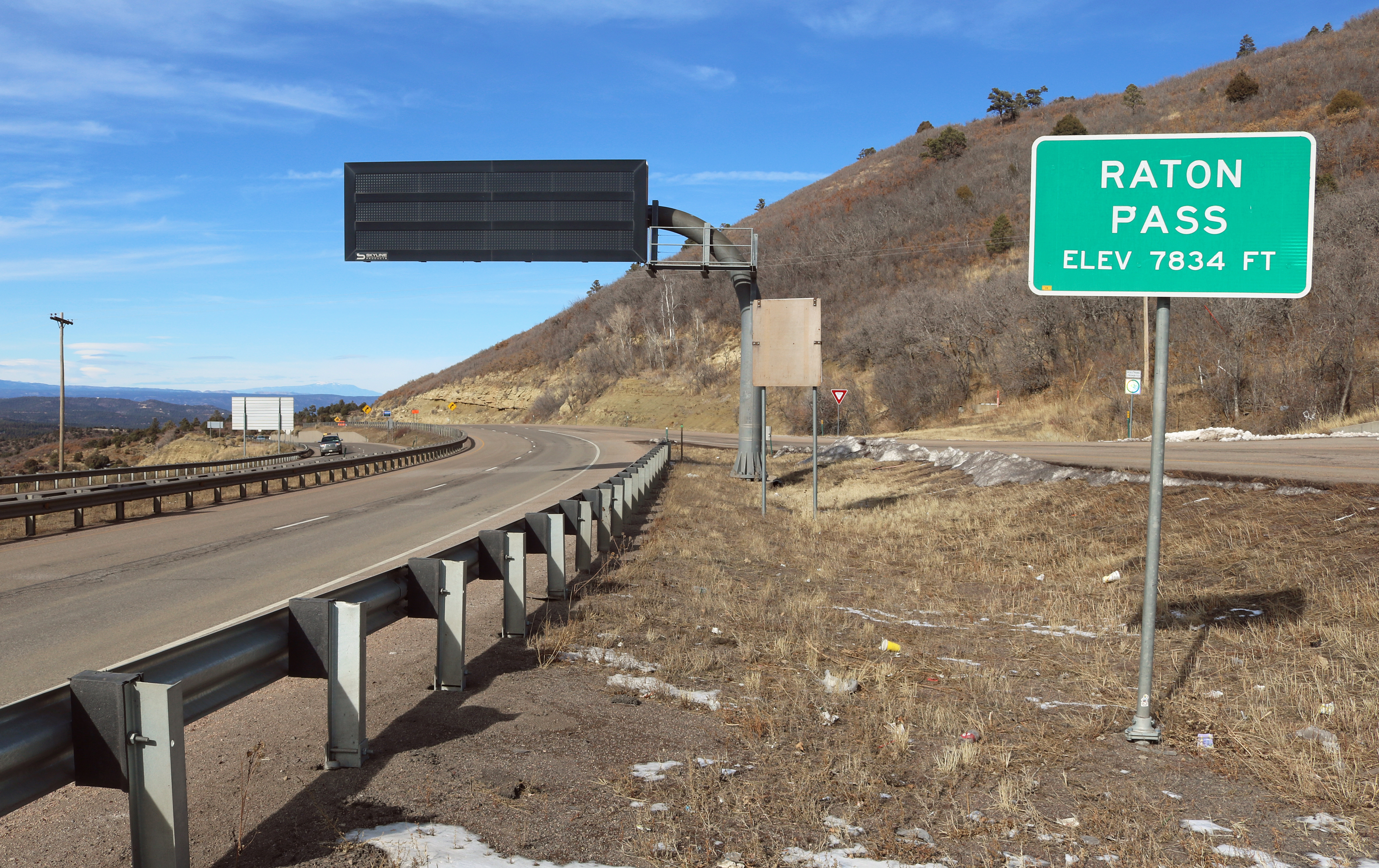 Raton Pass. The view is on the Colorado (northbound) side of the pass, along Interstate 25, looking north.